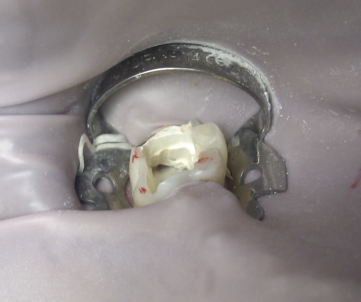 Pulp was removed from the pulp chamber and root canals. Depending on doctors discretion, canal is closed temporarily or closed with a crown.